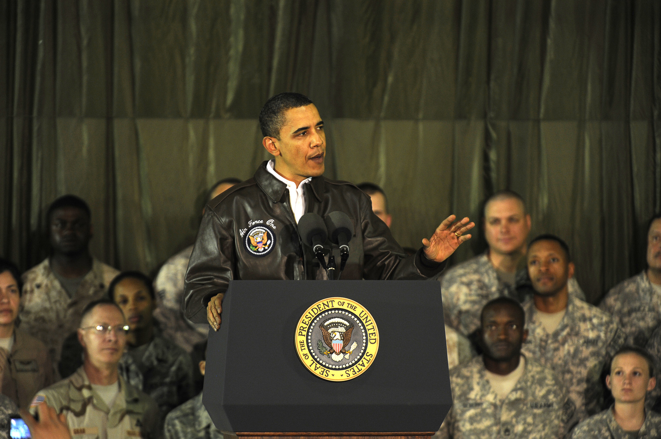 President Barack Obama thanks a crowd of deployed service members and civilians for their service to the United States during a surprise visit to Bagram Airfield, Afghanistan, Sunday night. Prior to speaking to the troops, Obama flew to Kabul to meet with Afghanistan's president Hamid Karzai. (Photo by U.S. Air Force Tech. Sgt. Jeromy K. Cross) Combined Joint Task Force - 82 PAO Date: 03.28.2010 Location: Bagram Airfield, AF Related Photos